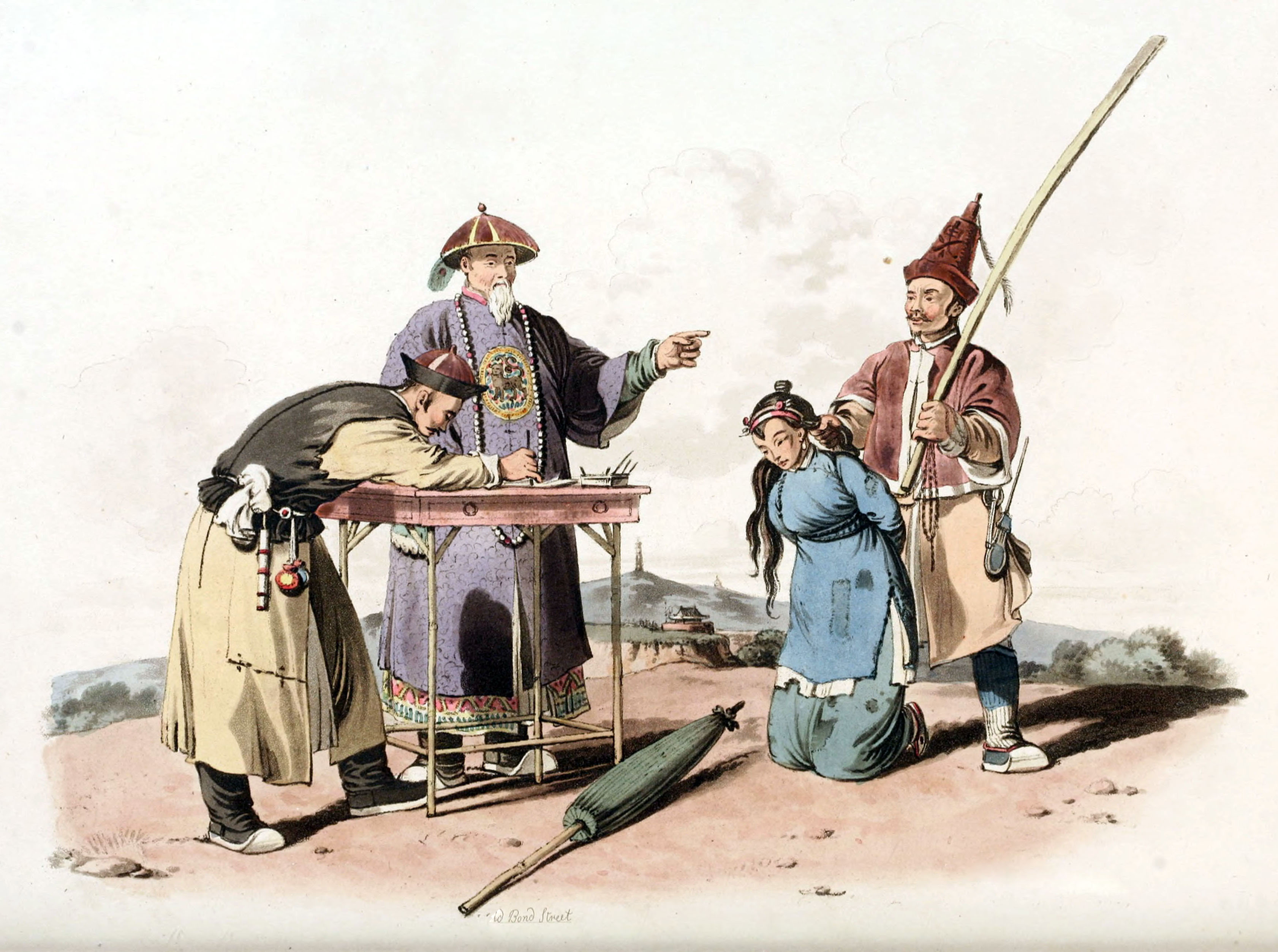 Drawing by William Alexander, draughtsman of the Macartney Embassy to China in 1793. Image taken from The Costume of China, illustrated in forty-eight coloured engravings, published in London in 1805. The subject is a female charged with prostitution. The magistrate is known to be of royal blood, by the circular badge on his breast instead of a square one; the secretary, who is taking minutes, wears on his girdle his handkerchief and purses, together with a case containing his knife and chopsticks. The cap worn by the officer of police is distinguished by certain letters which denote the name of the mandarin he serves.